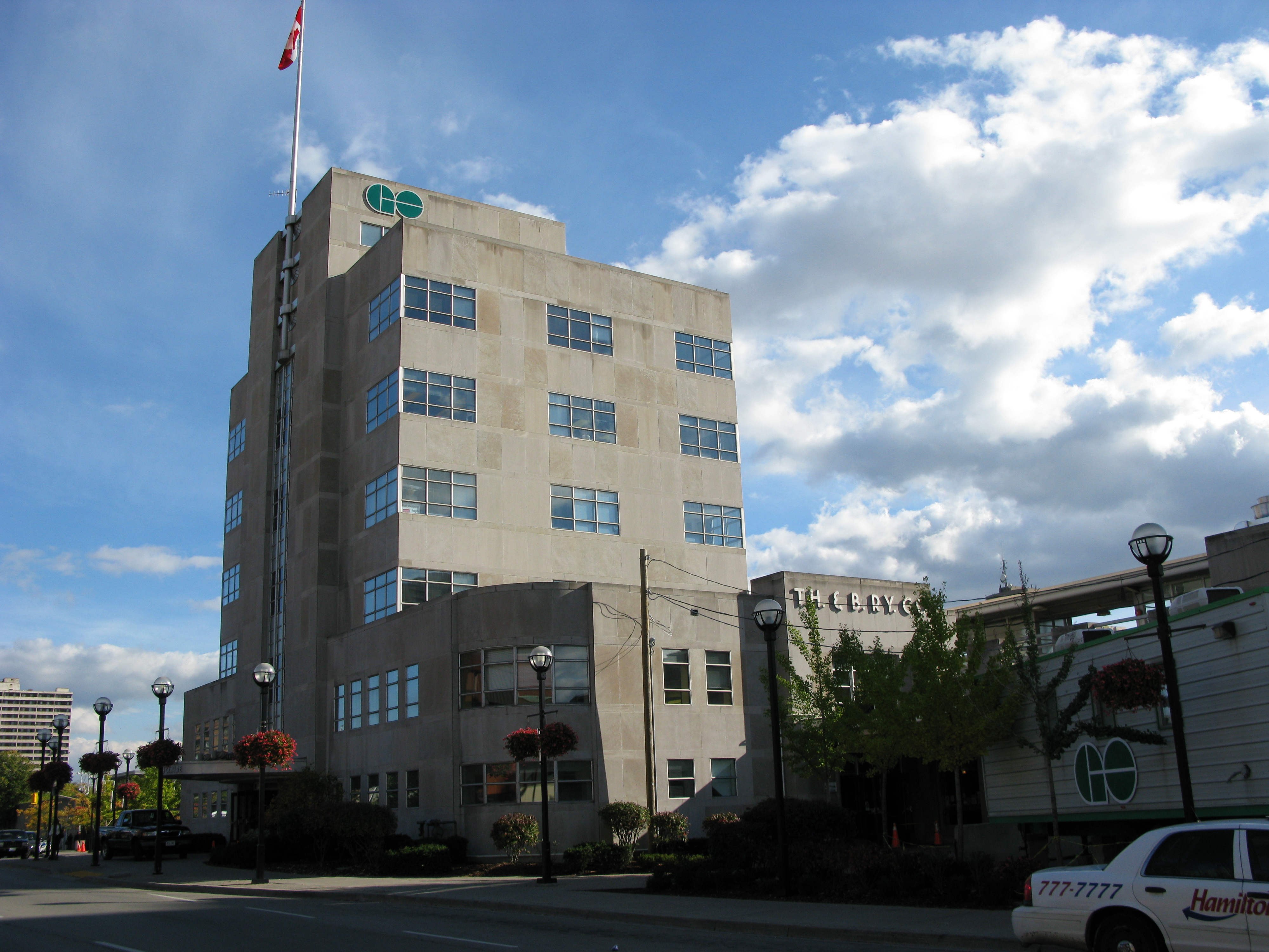 Hamilton GO Centre, 36 Hunter Street, Hamilton, Ontario, Canada